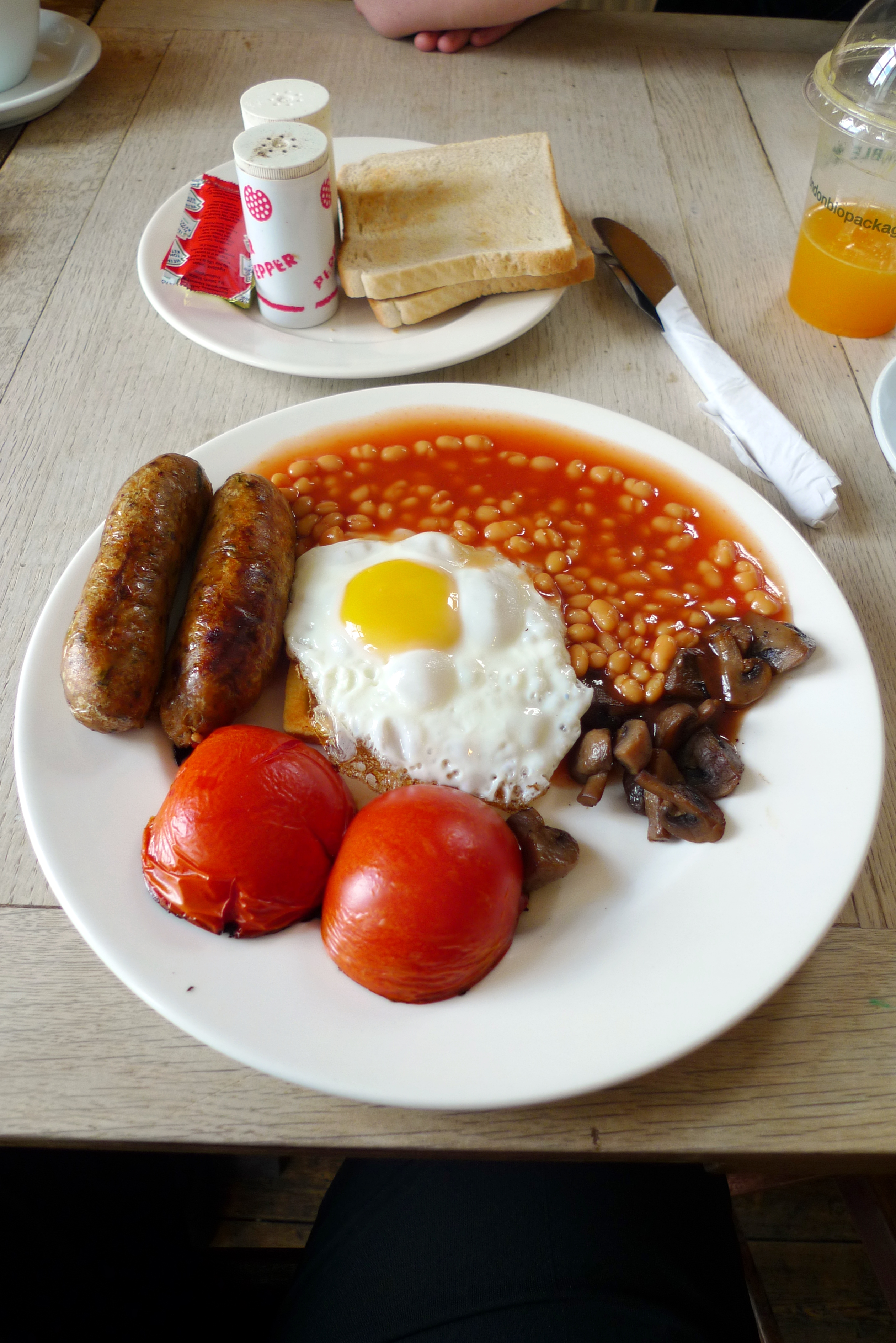 Springfield Park Cafe, Upper Clapton, London. Full English breakfast with veggie sausages.